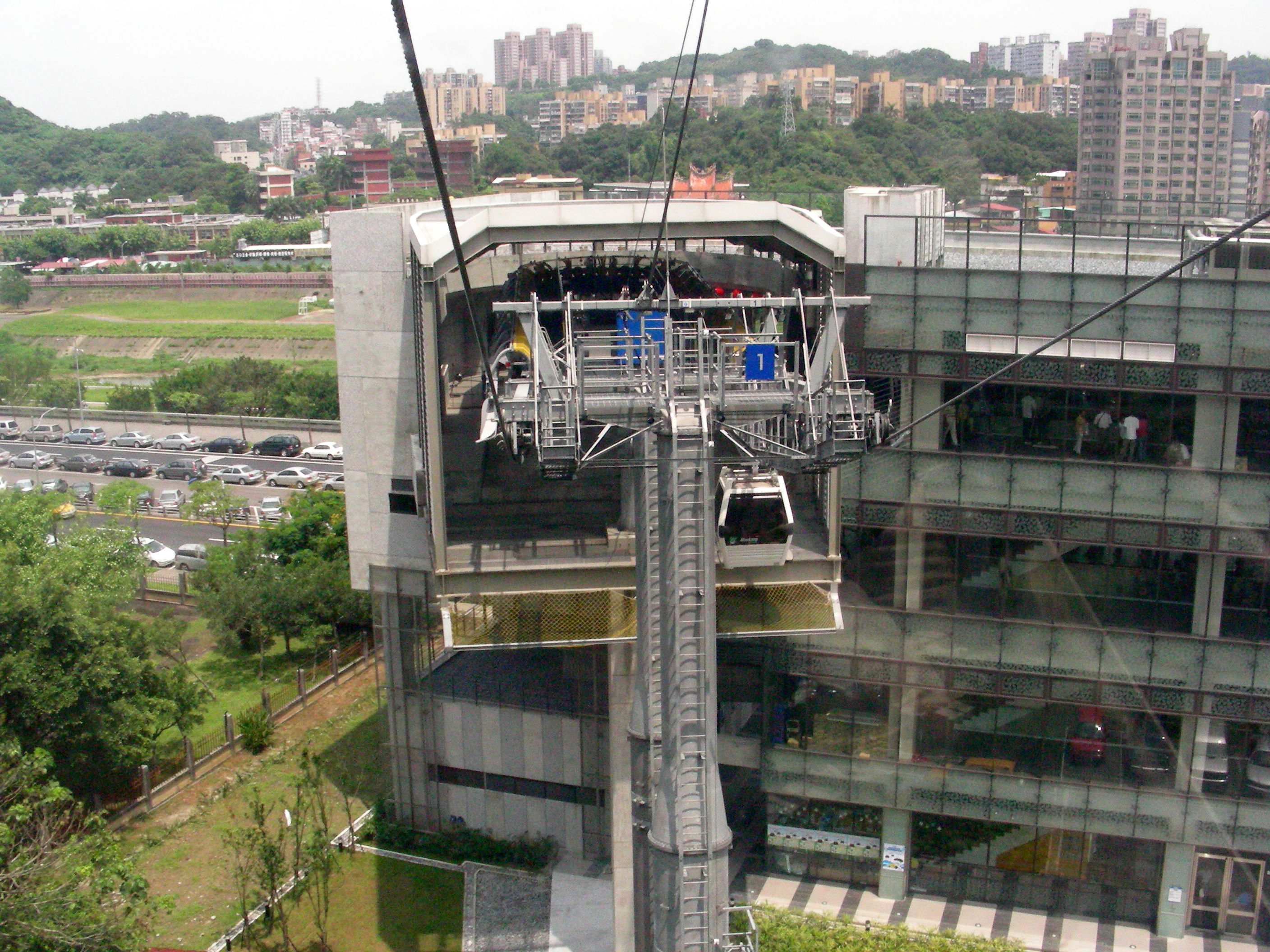 Taipei Zoo Station rear side and Column No.1, Maokong Gondola.